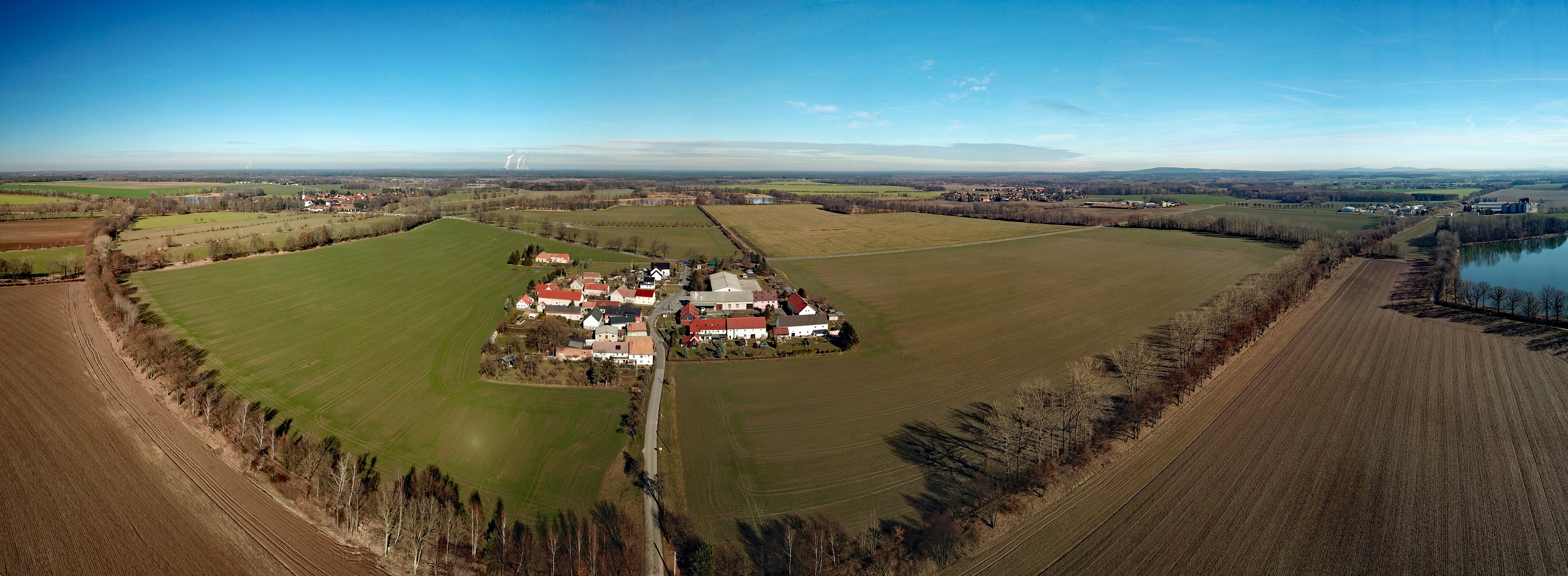 Salga, Großdubrau, Saxony, Germany Hornjoserbsce: Powětrowy wobraz Załhowa